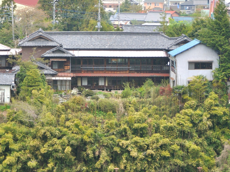 Yorii town old hotel